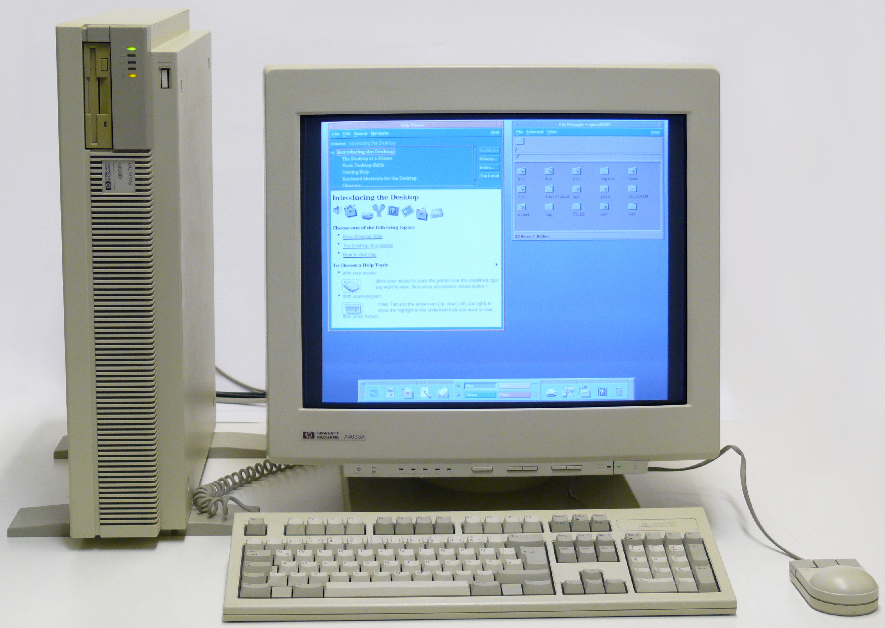 Hewlett-Packard HP9000 Unix Workstation, Model 735-99, HP9000/735, Series 700, PA-RISC 7100 CPU - 32 Bit - 99 MHz, max 400 MByte RAM, HPUX 10.20, CDE, SCSI, HIL, HP A4033A 19 inch CRT